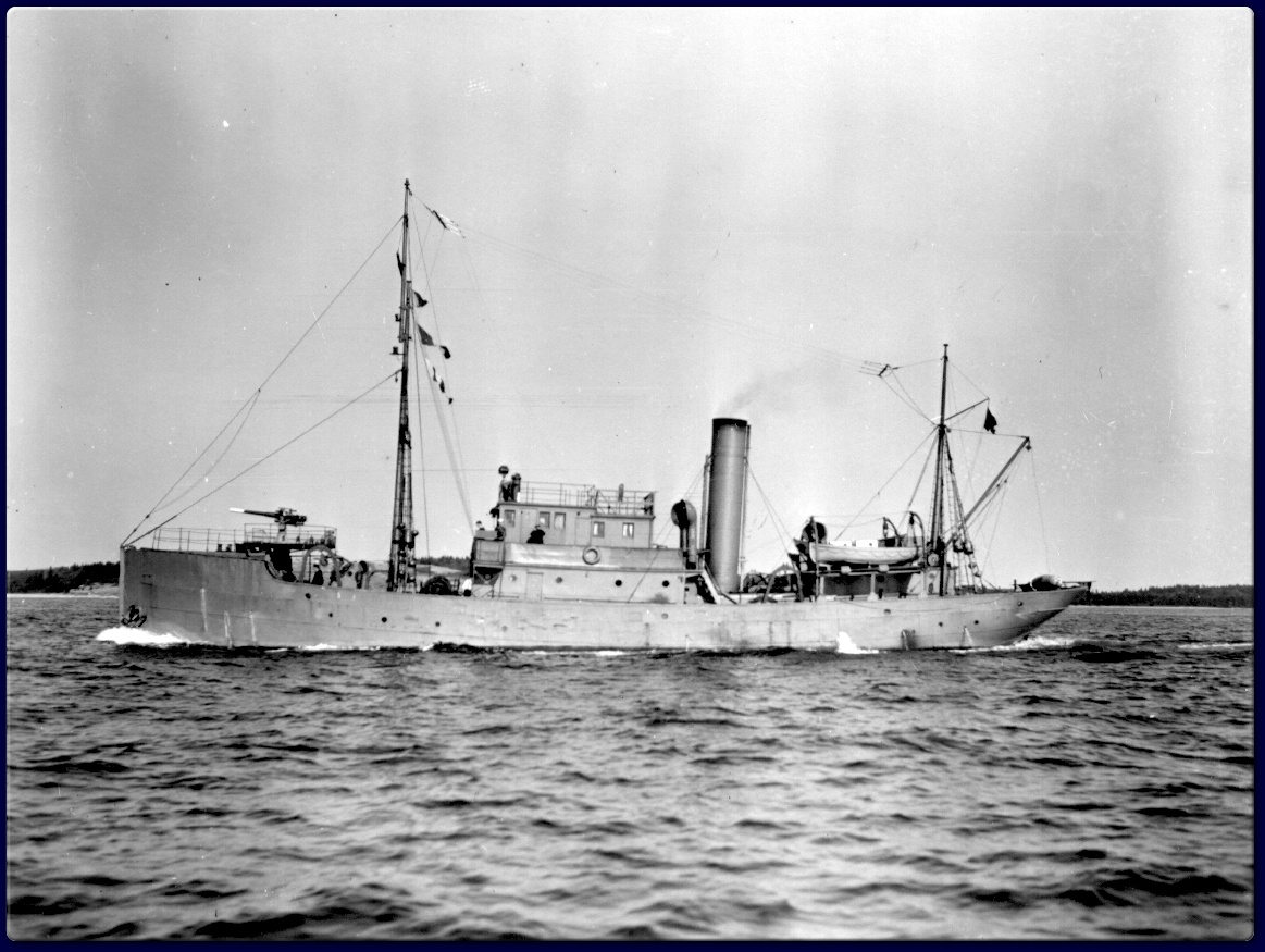 Photograph of Canadian Battle class naval trawler HMCS Arras.